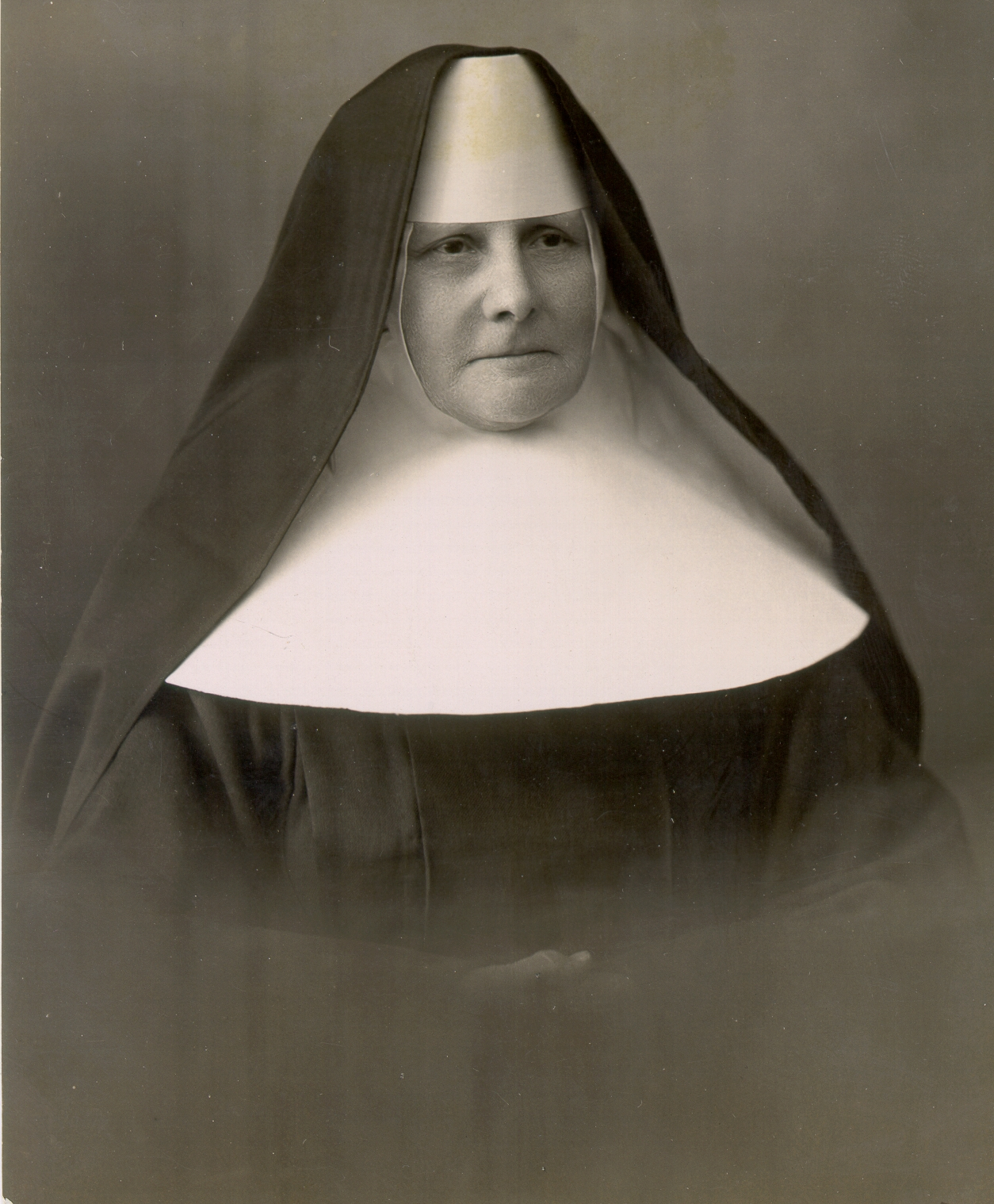 Felicita Kalinšek (1865-1937), Slovenian nun and co-author of the most famous slovenian cookbook